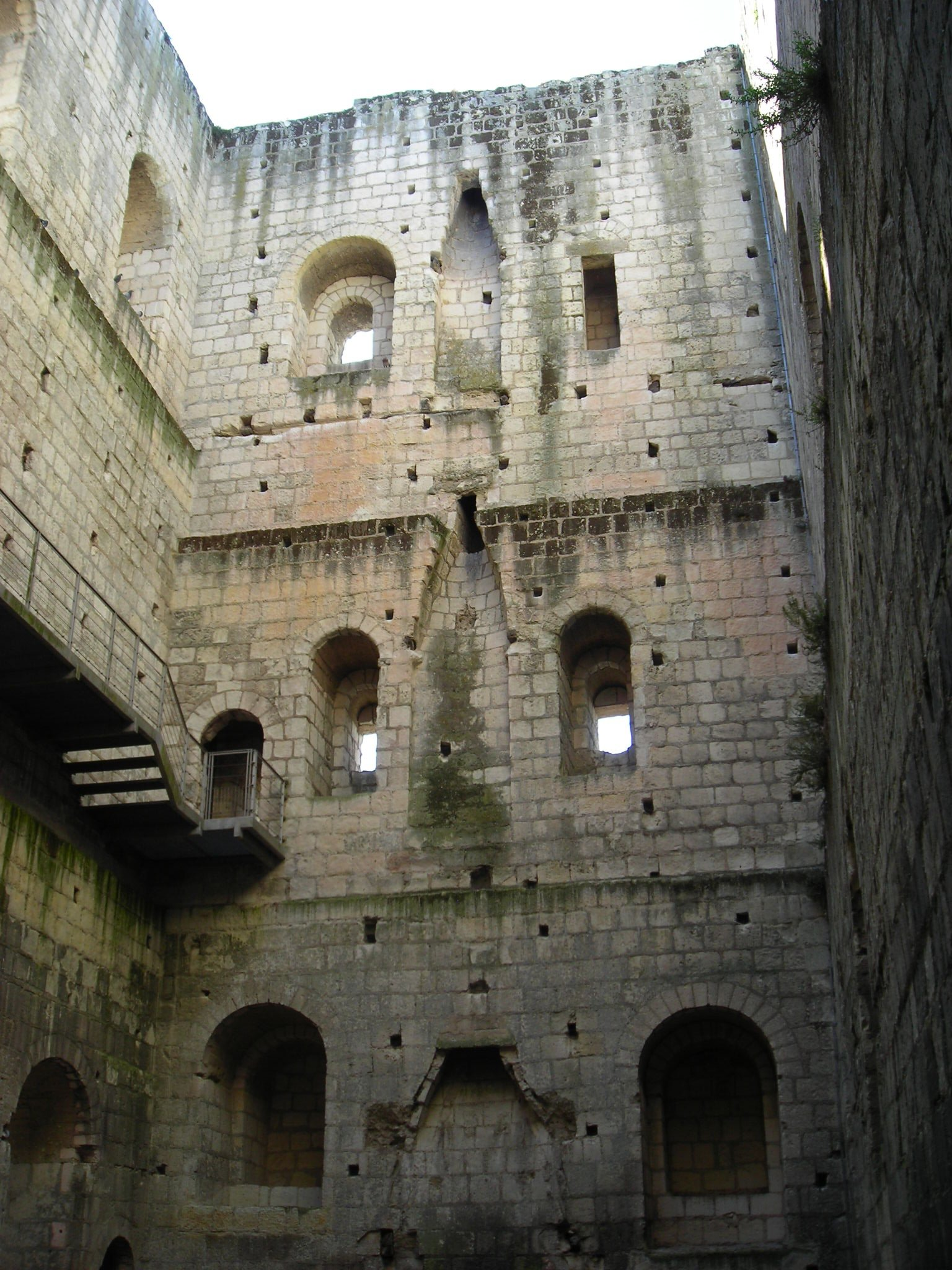 Inner view of Loches keep (France)